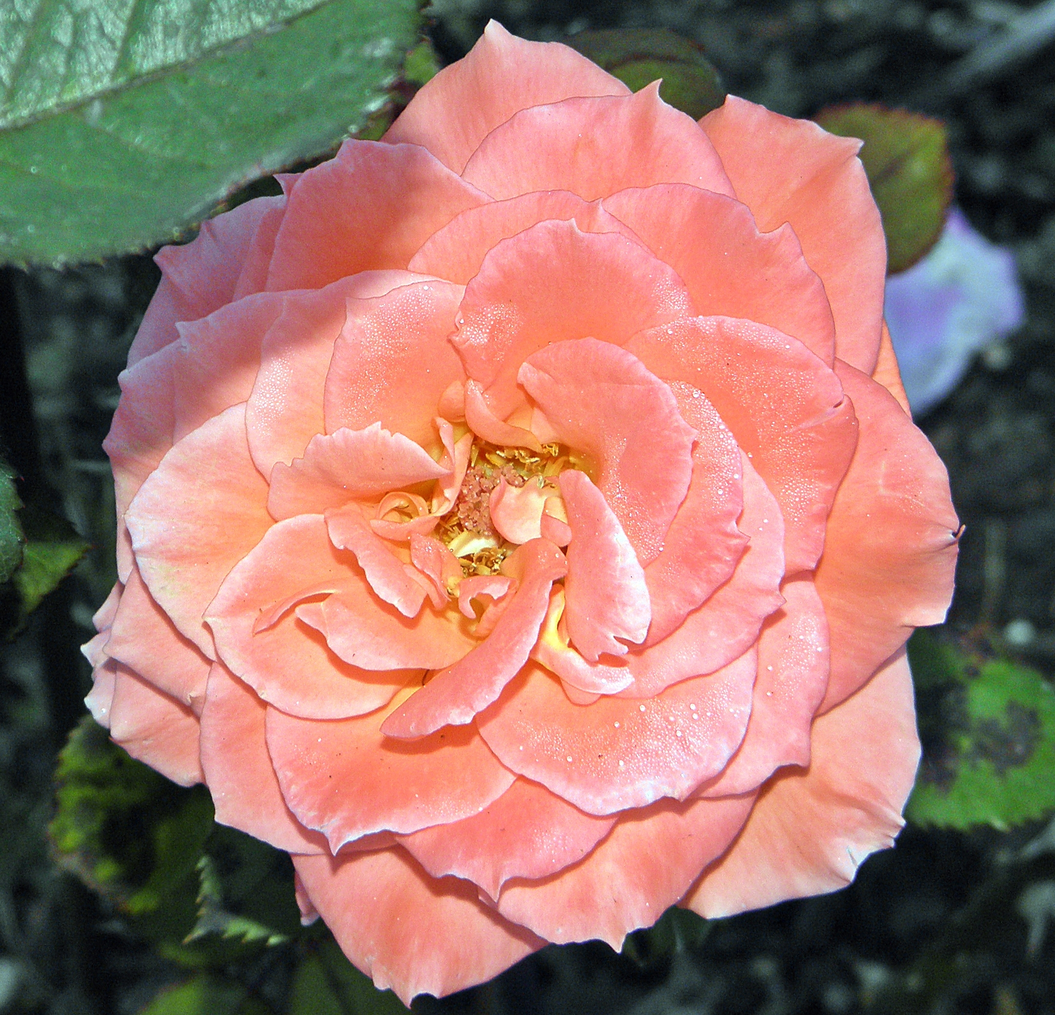 Hybrid Tea Rose 'Seashell'; Bush Pasture Park Rose Garden, Salem, Oregon. 97301